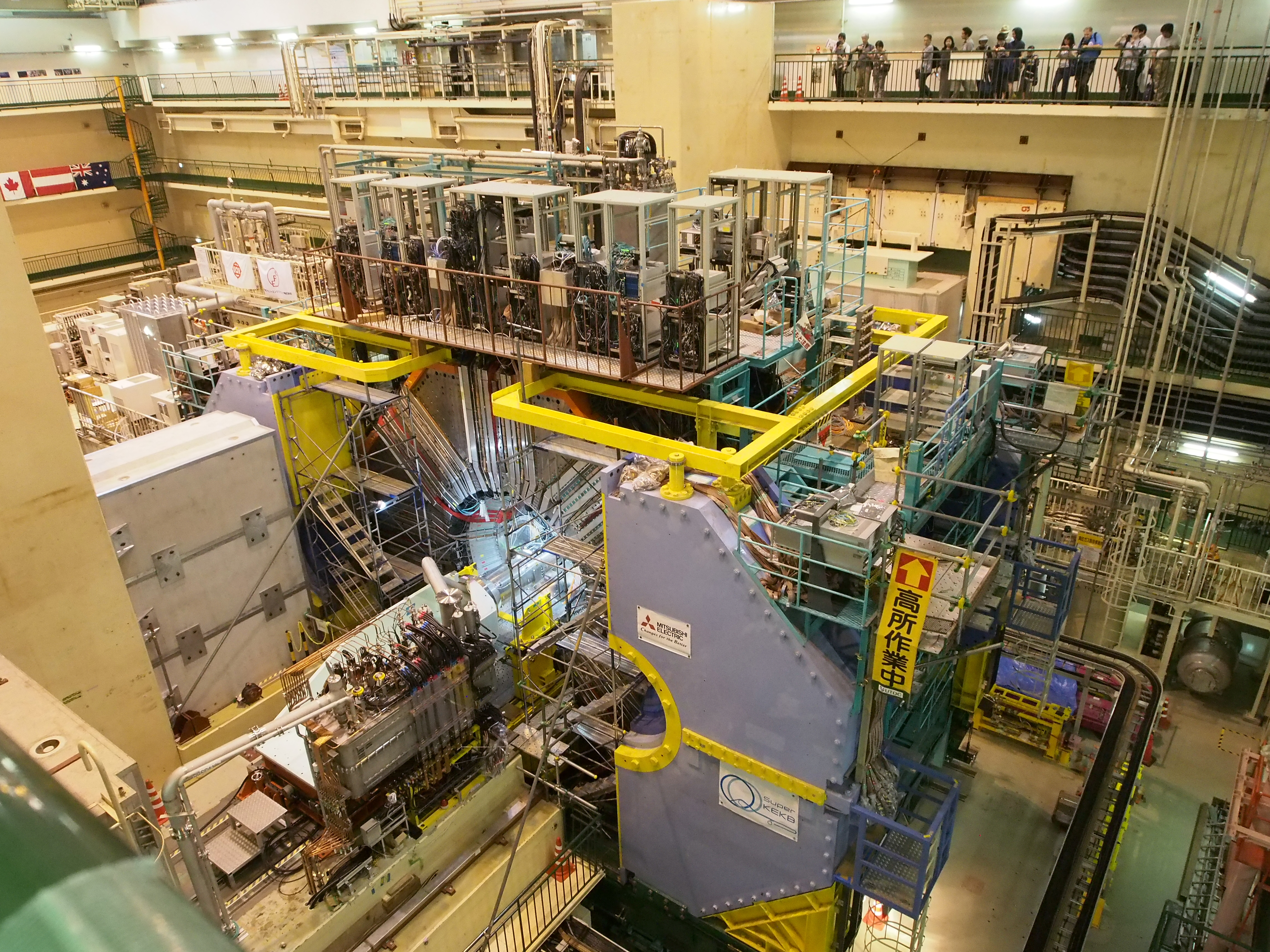 Belle II detector for SuperKEKB electron-positron particle accelerator under construction at KEK (The High Energy Accelerator Research Organization) in Tsukuba, Japan. Photographed on Open House day.